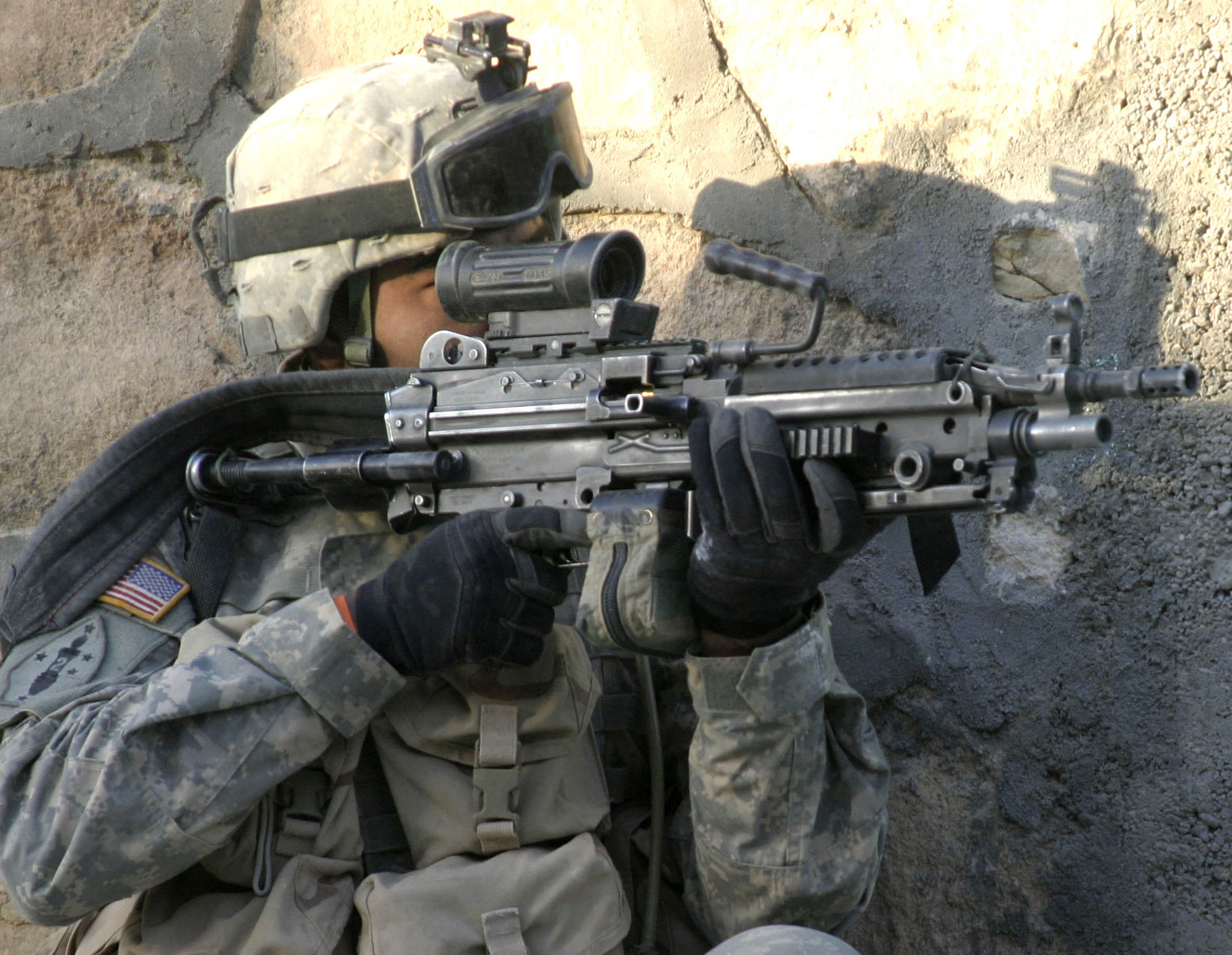 PFC Phillip Ruiz, from 2nd Platoon, Company B, 2nd Battalion, 1st Infantry Regiment, provides security for Soldiers and Marines during a presence patrol in Rawah, Iraq.